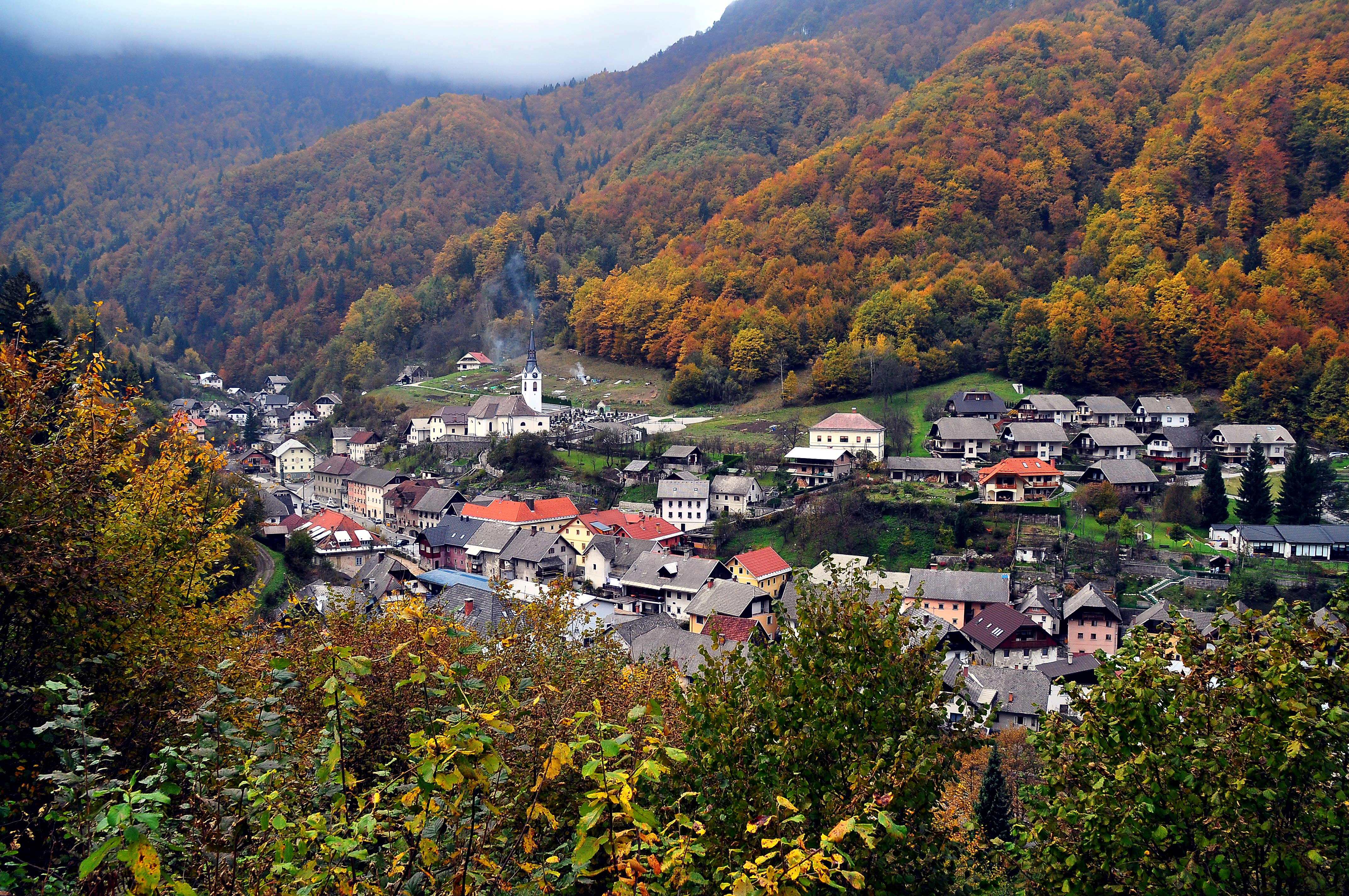 View at Kropa, a settlement in the community of Radovljica, Gorenjska, Slovenia